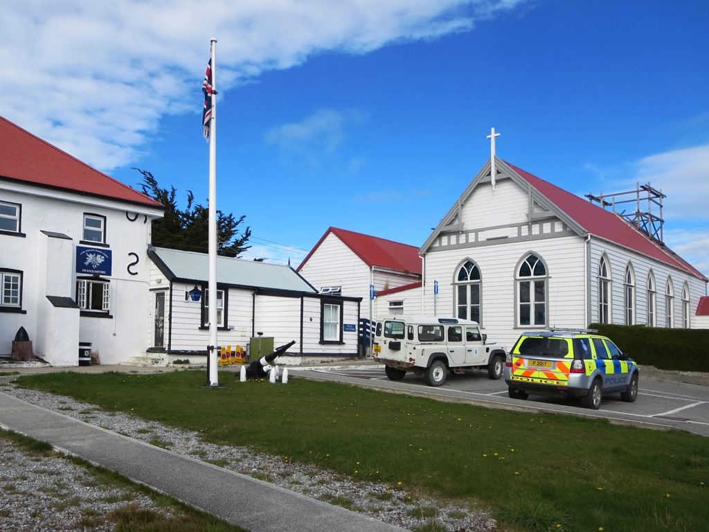 The Falkland Islands Police headquarters and St. Mary's Catholic Church (1899) are adjacent in Stanley.